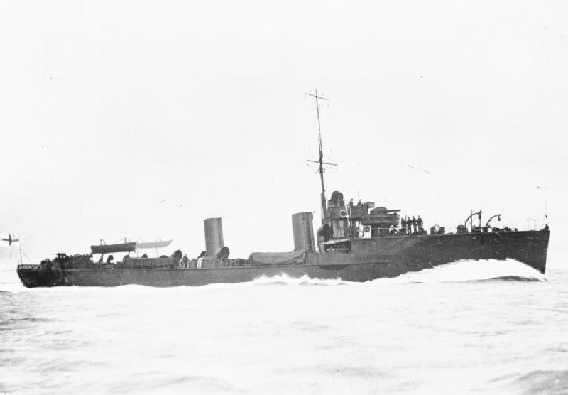 Photograph of British River (E) class destroyer HMS Arun.